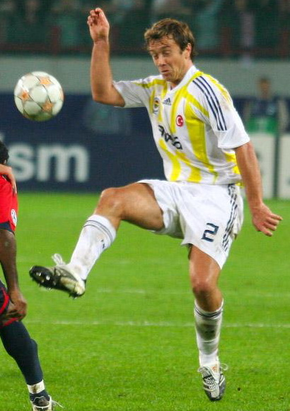 Diego Lugano